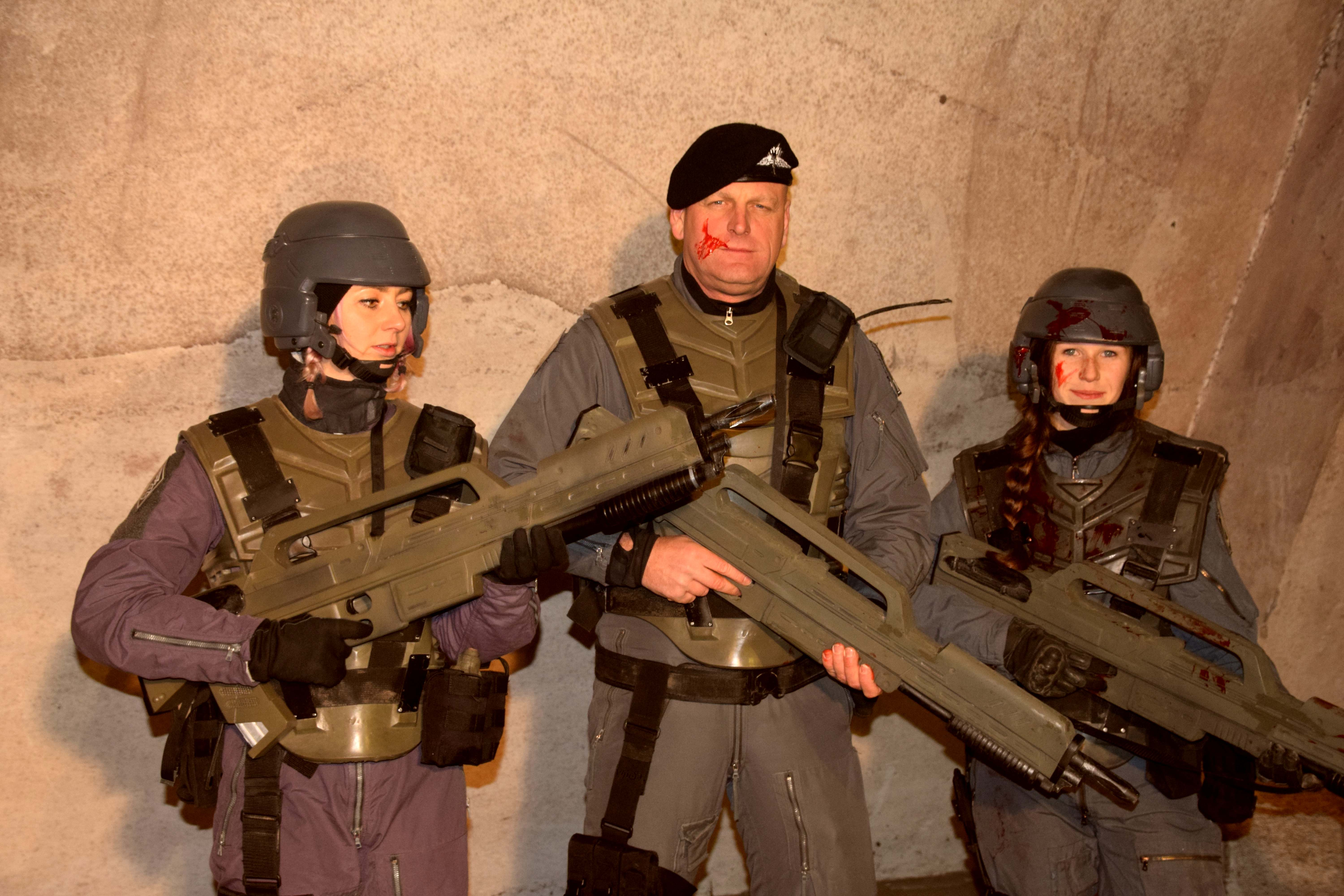 Starship Troopers German Division, Cosplay Group. This photo was made in Haßmersheim during the shooting of footage for a fan movie project, which is a sequel of the original Starship Troopers movie. The movie will be a short movie.